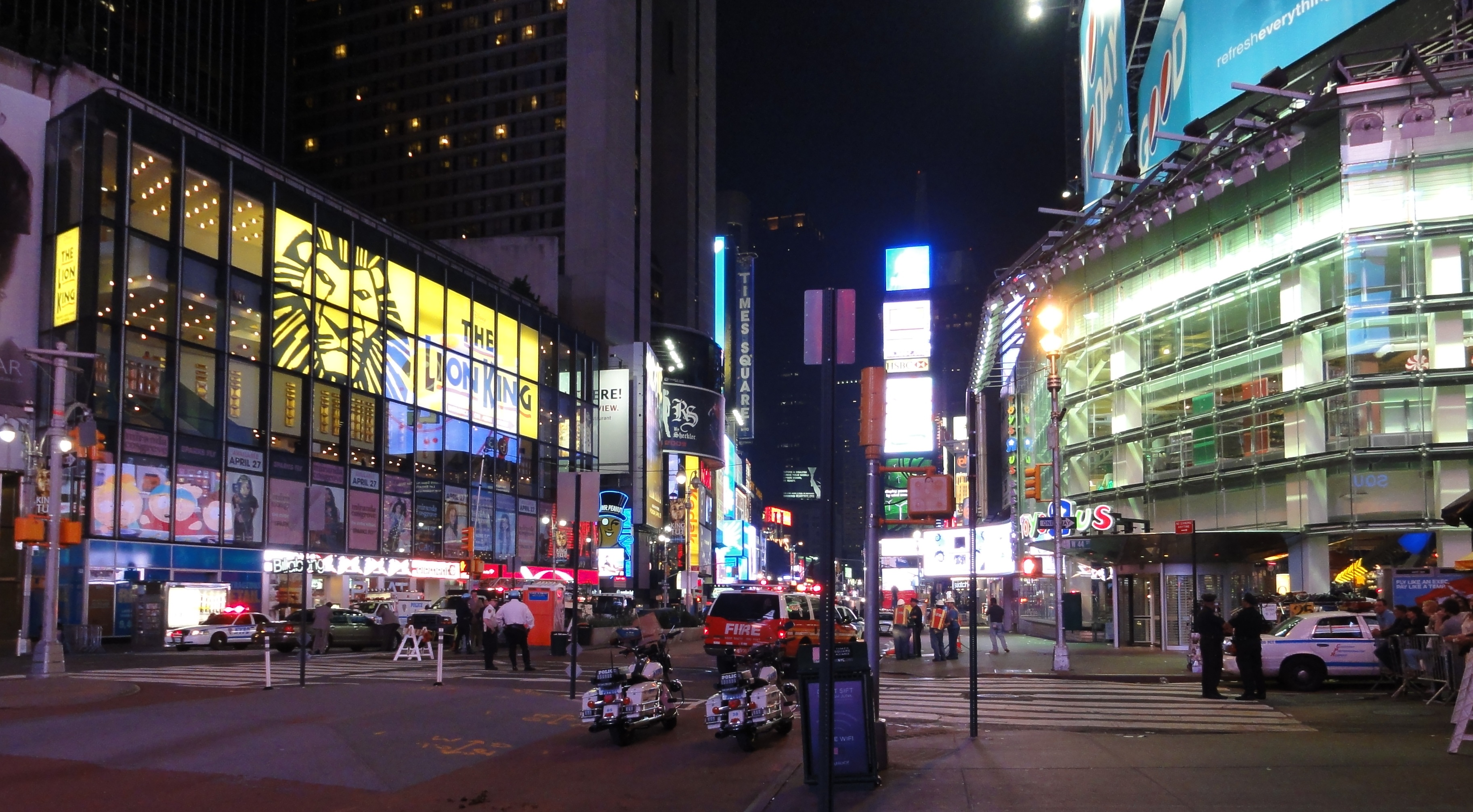 Times Square is closed by the NYPD due to a bomb scare.